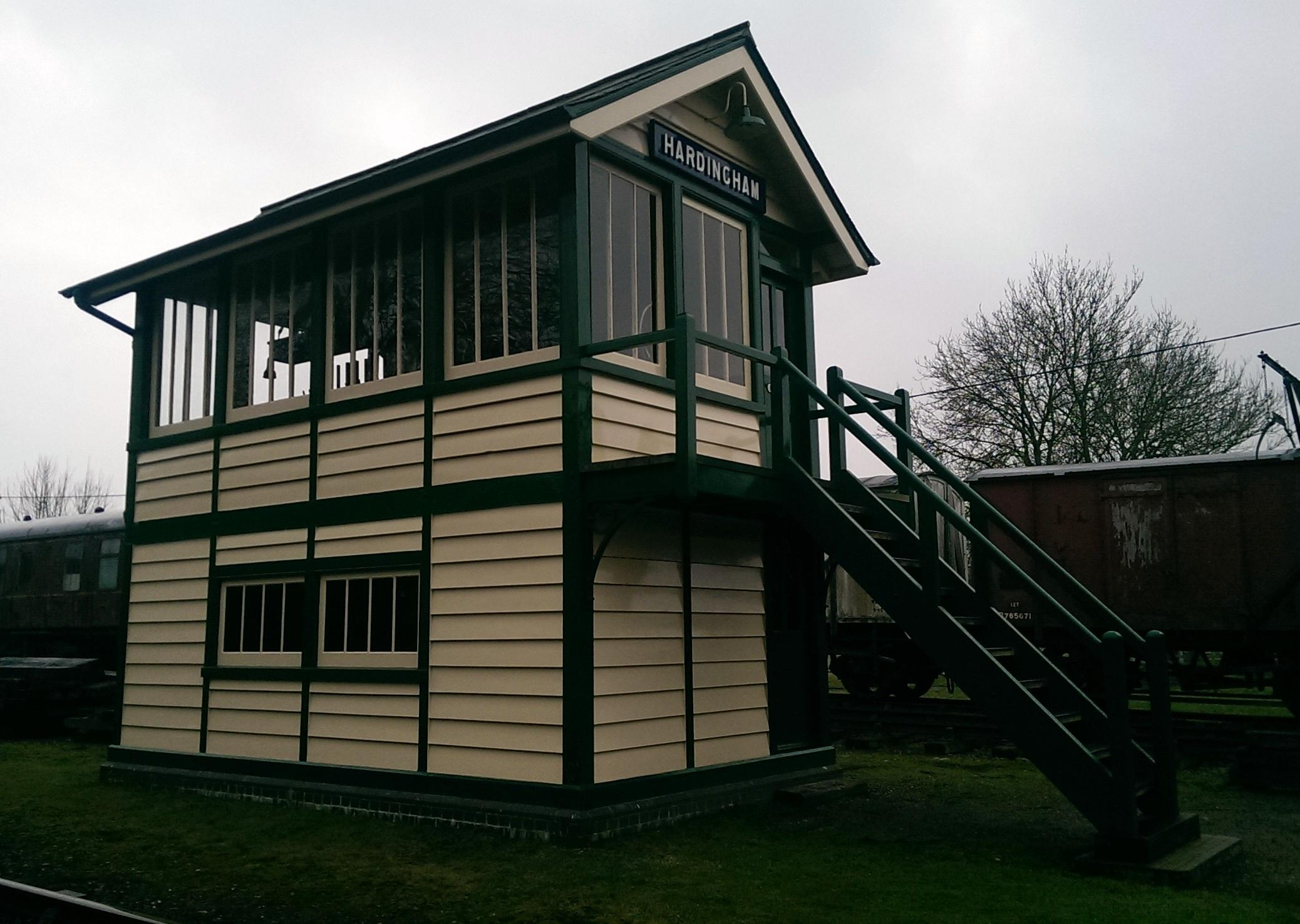 The private Hardingham signal box, January 2015